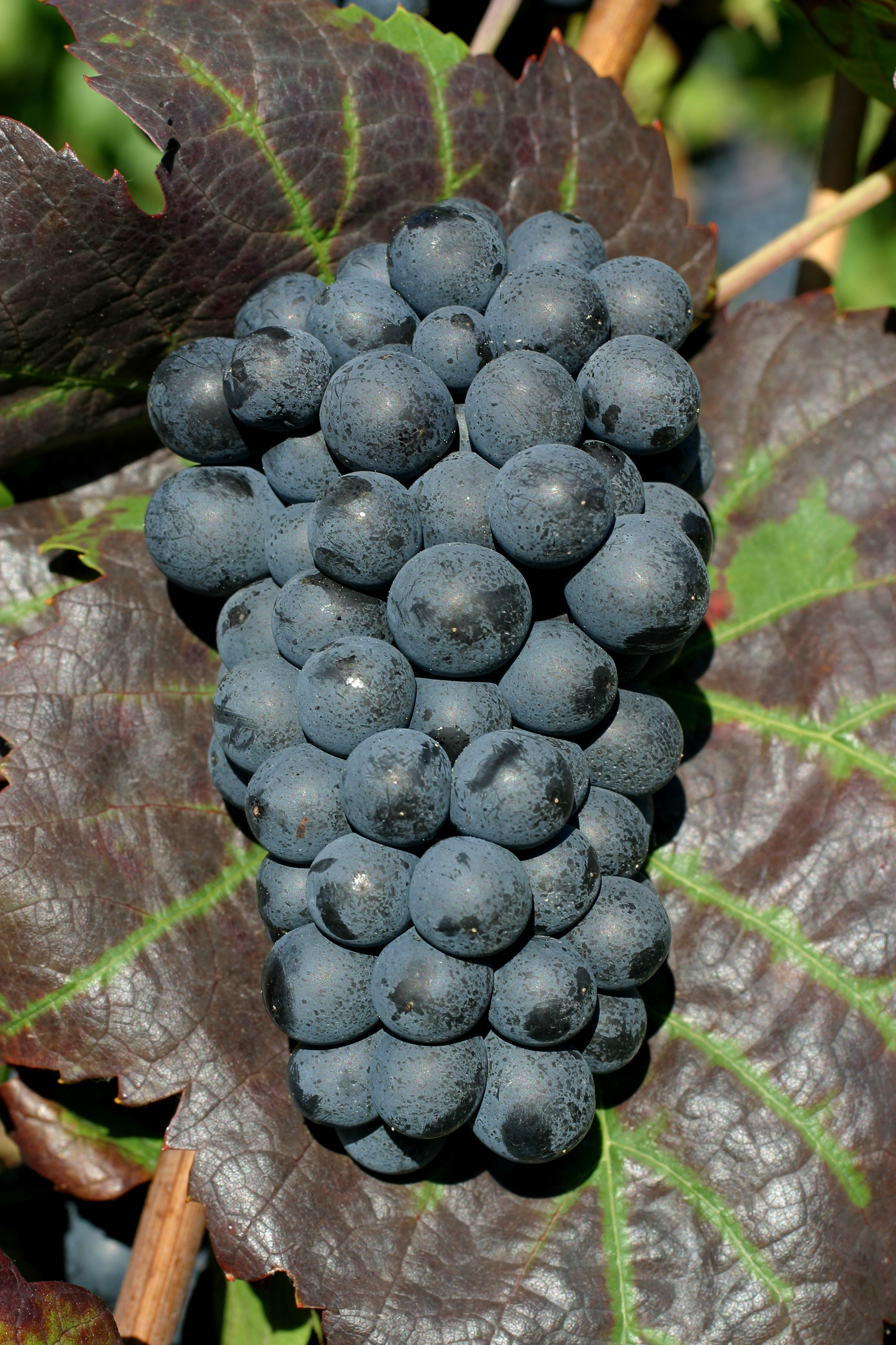 A grape of the Gamay noir variety